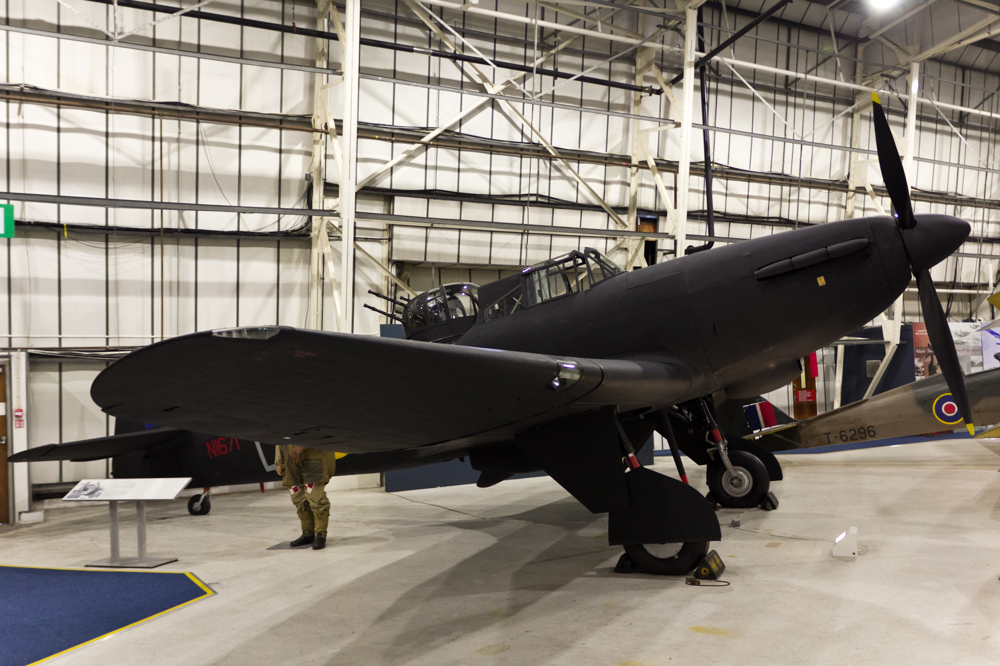 Boulton Paul Defiant at the RAF Museum in Hendon